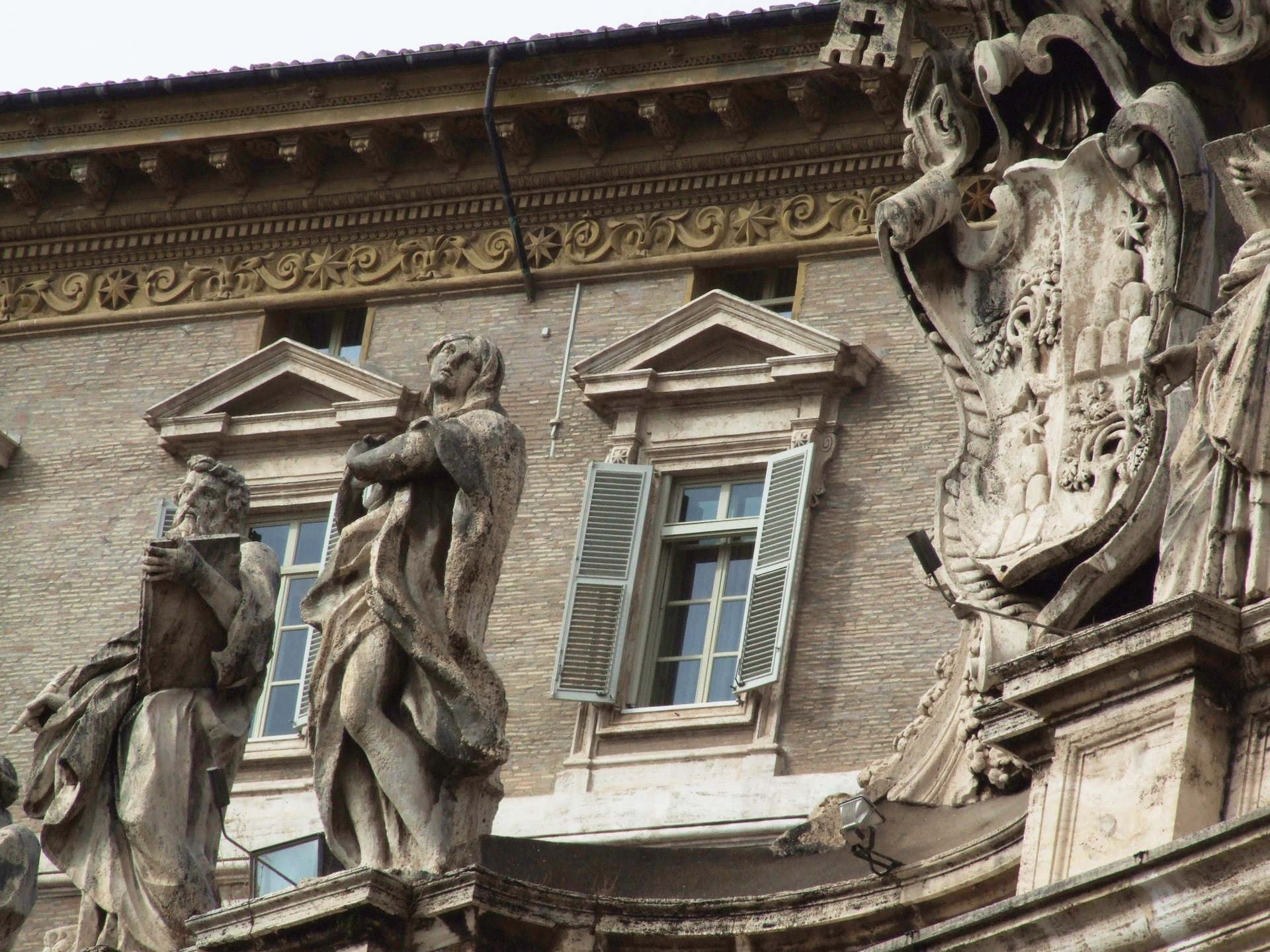 Vatican Pope' Window St Pieter Basilica, Vatican City, Castielli CC0